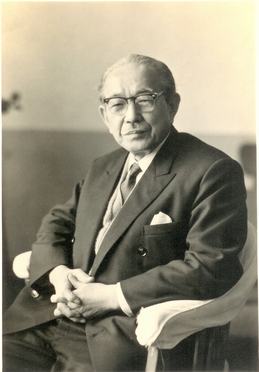 Hasegawa Ryoshin（長谷川良信）,Japanese Social Worker